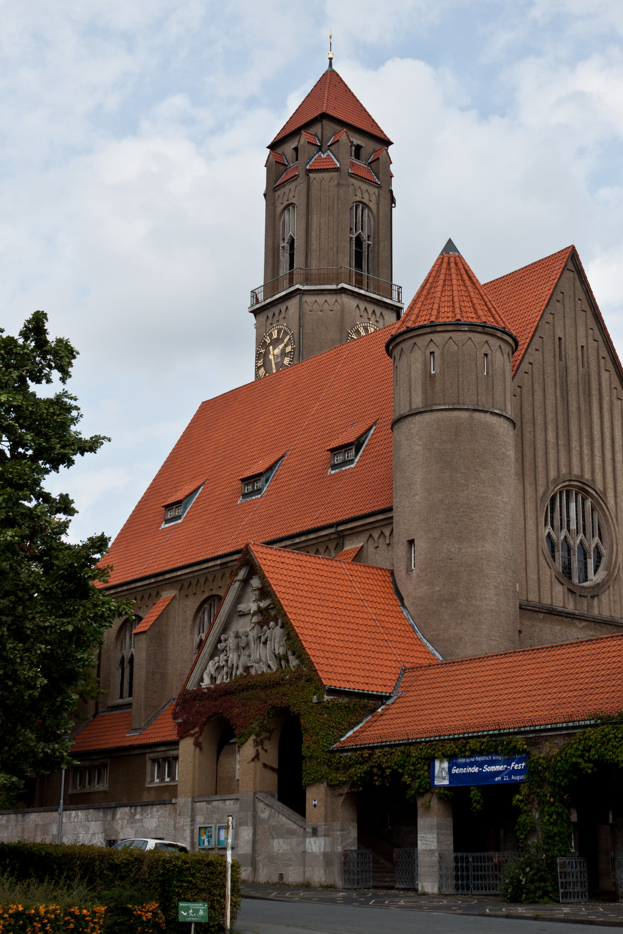 View onto the Pauluskirche in Darmstadt, Germany, from south-western